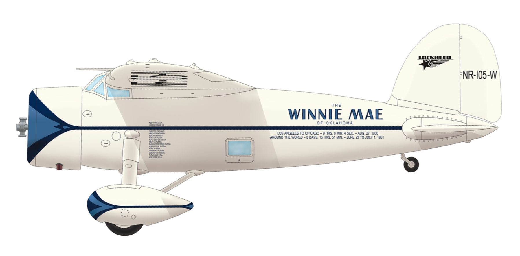 Lockheed Vega 5C "Winnie Mae", 1933